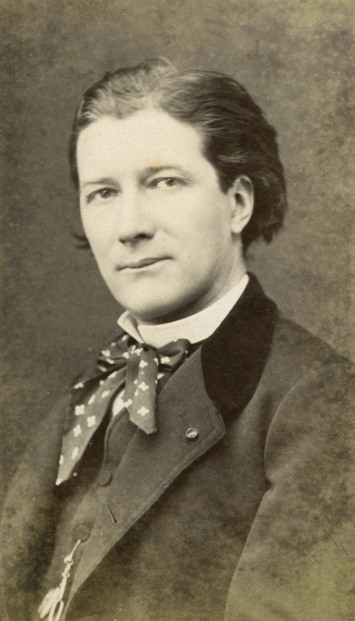 Victorien Sardou circa 1880